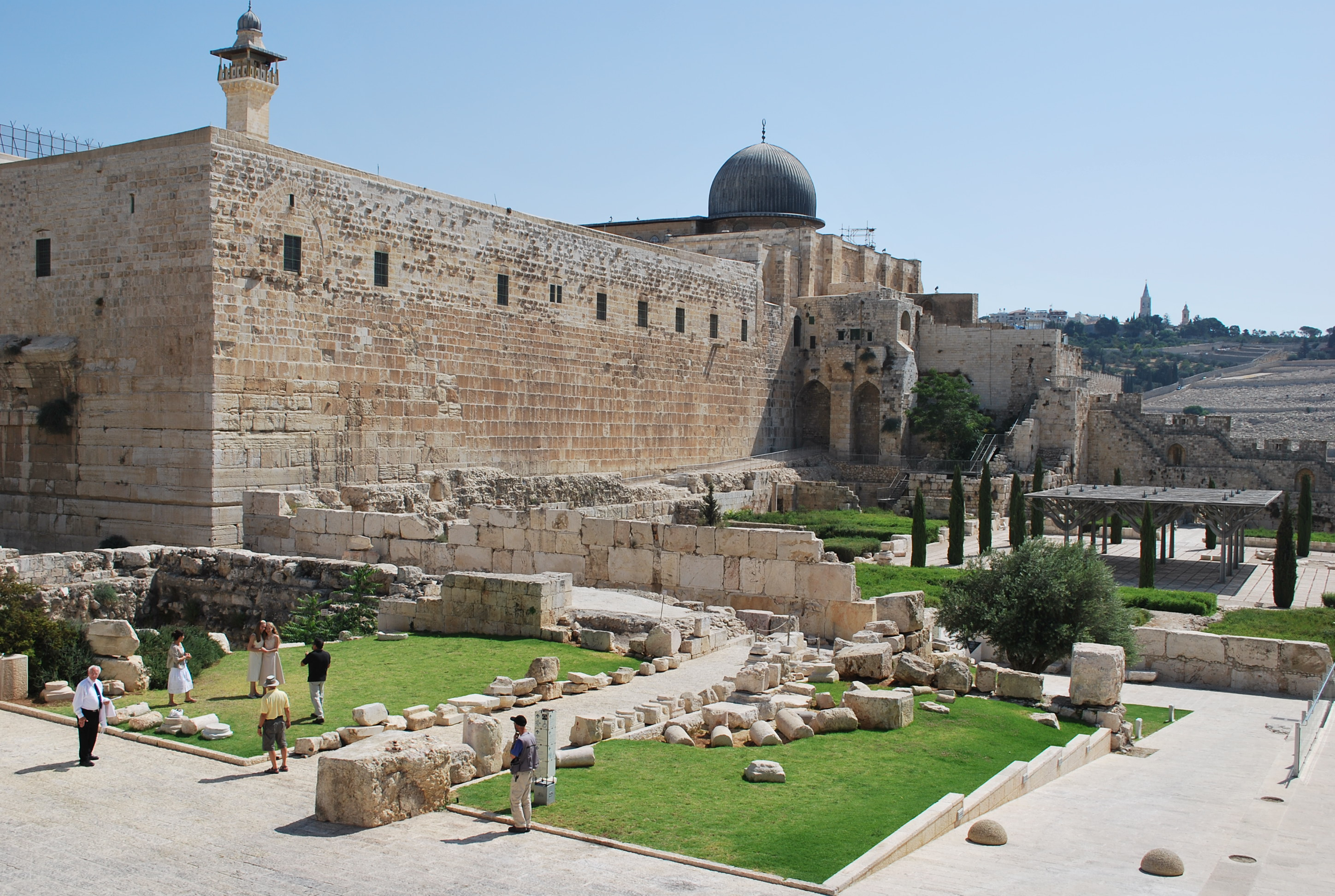 This is just to the south of the Western Wall. In fact, the bit of the wall on the left, is the same stretch that the Western Wall is a part of. They have dug down to the original road that was here over 2000 years ago. Jerusalem